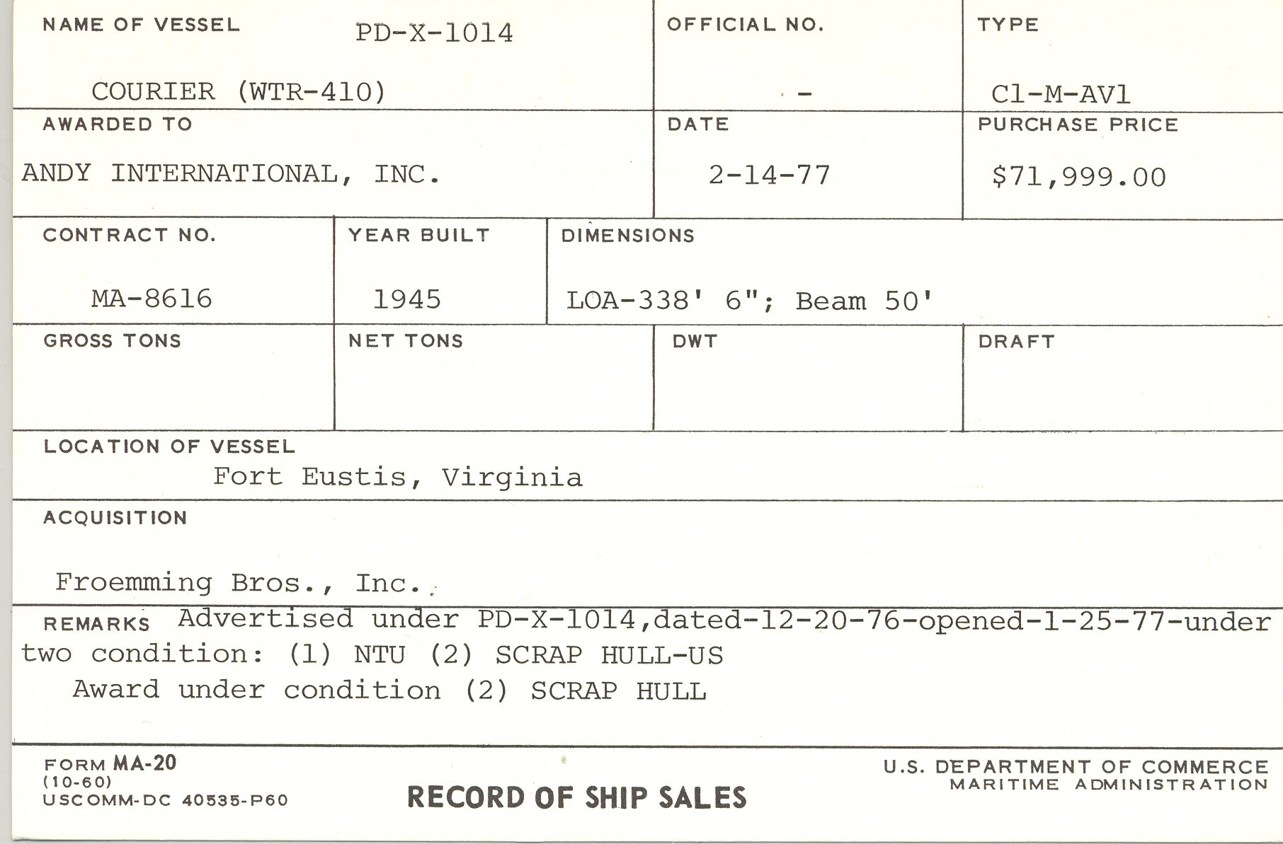 MARAD document for scrapping of USCGC Courier 410-WAGR/WTR with dates